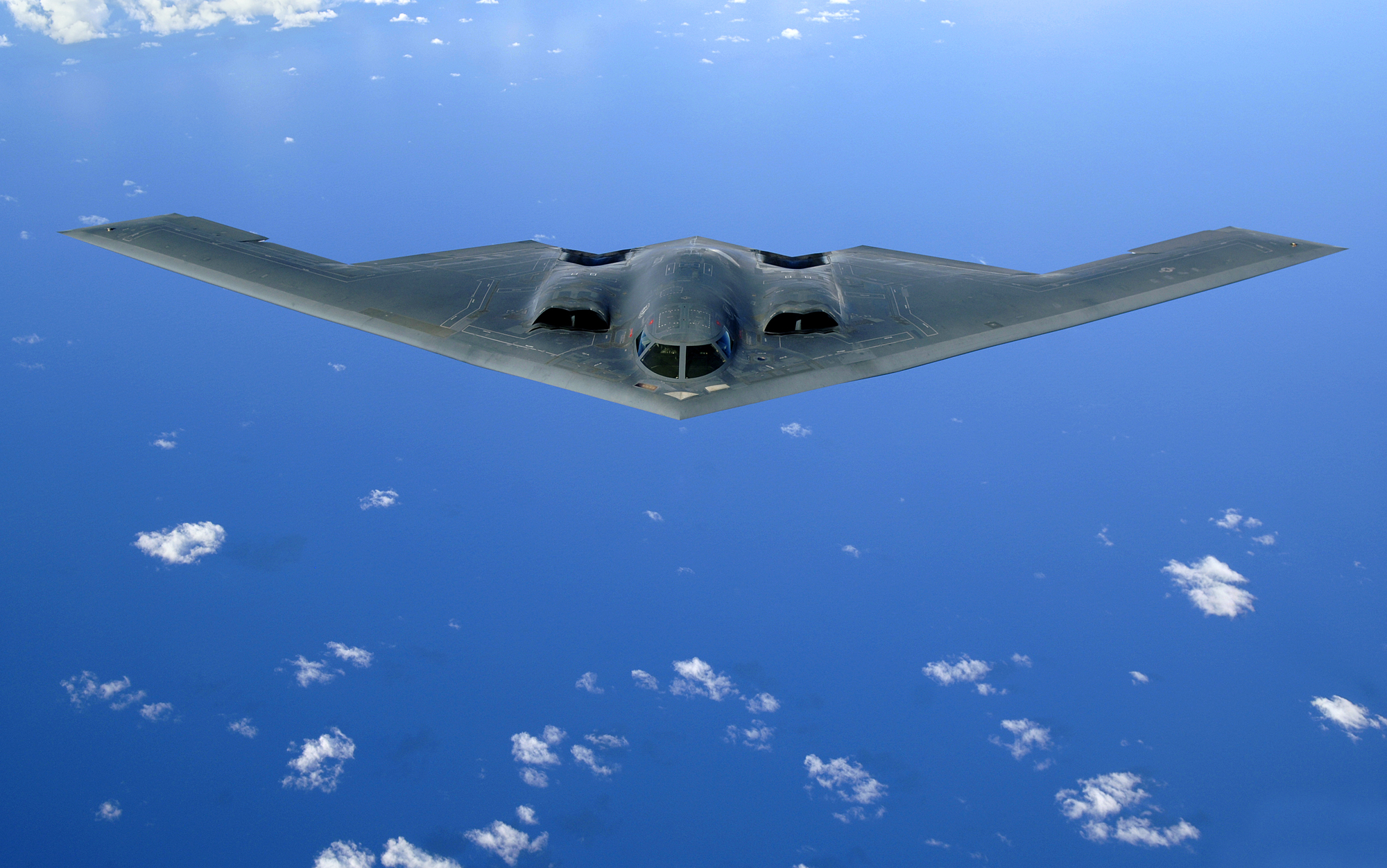 Air Force officials have awarded a contract to Northrop Grumman Corporation to provide advanced state-of-the-art radar components as part of a radar modernization program for the for the B-2 Spirit bomber. (U.S. Air Force photo/Staff Sgt. Bennie J. Davis III)